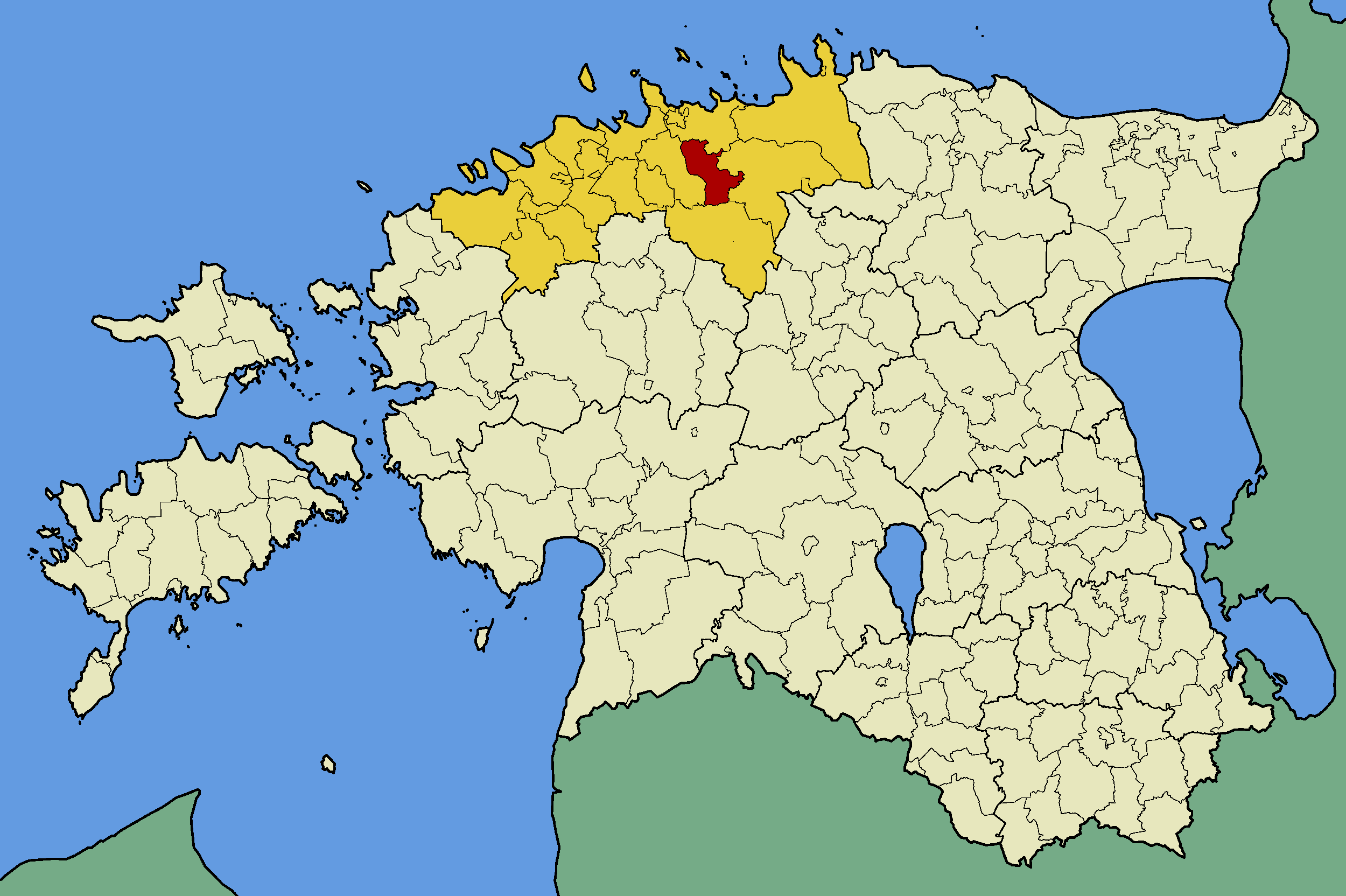 Map of Estonia with borders of municipalities (parishes). Harju county and Raasiku municipality (parish) emphasized.